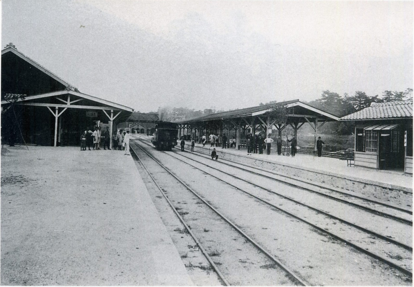 Tsuge Station of Kansai Railway (now Kansai Main Line of JR West)